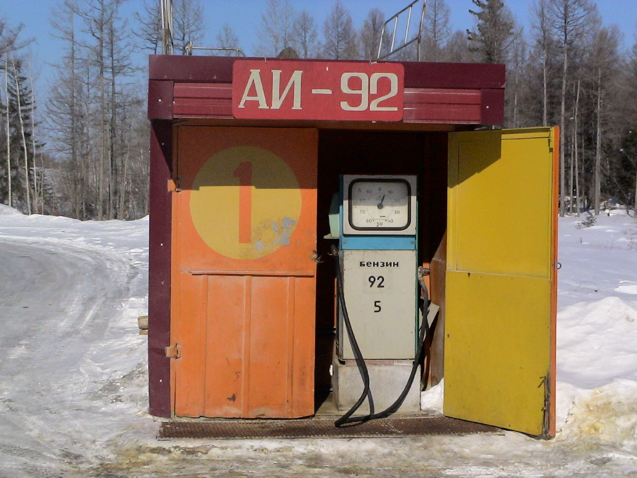 Petrol station near Yaktsk, Siberia, Russia